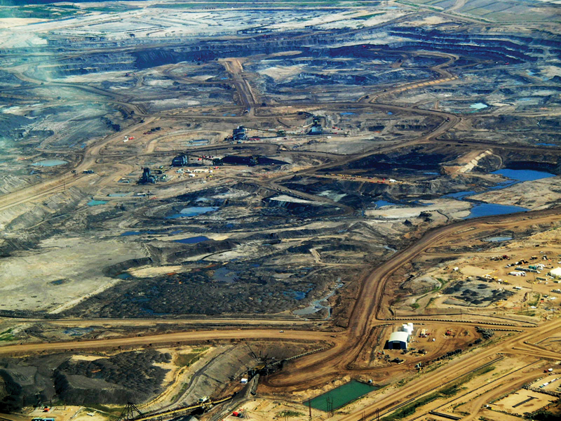 photo (cc) Dru Oja Jay, Dominion.